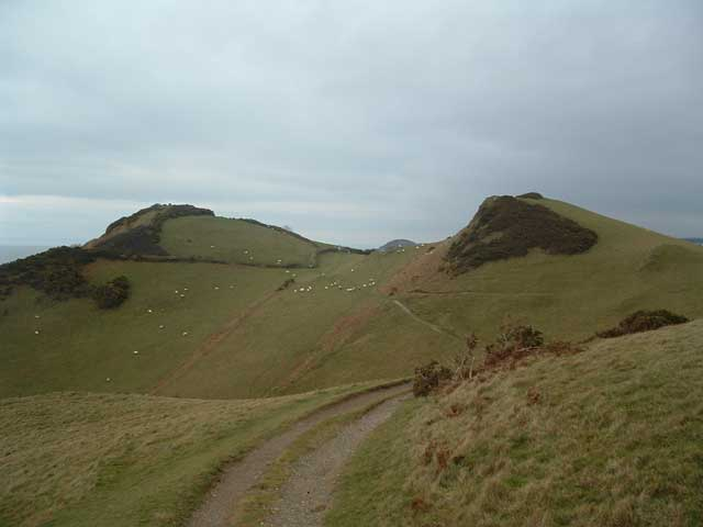 The Torrs, Ilfracombe. The South West Coastpath goes through this National Trust land just outside Ilfracombe.